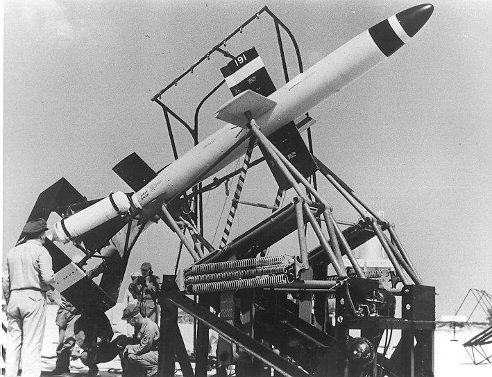 LARK MISSILE ON ZERO-LENGTH LAUNCHER - 1950